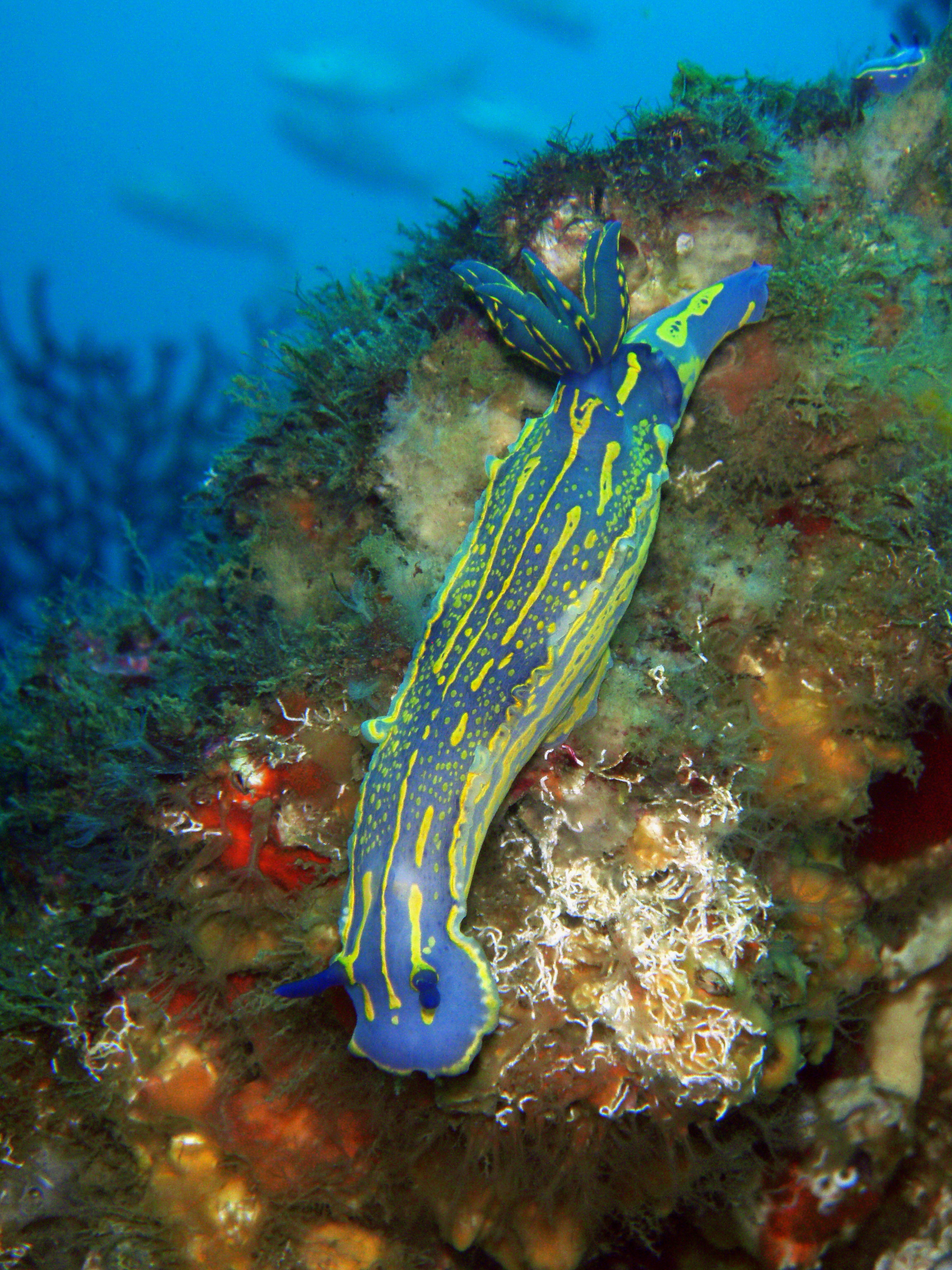 Nudibranch Felimare picta on wreck of SS Rosslyn, Gibraltar.